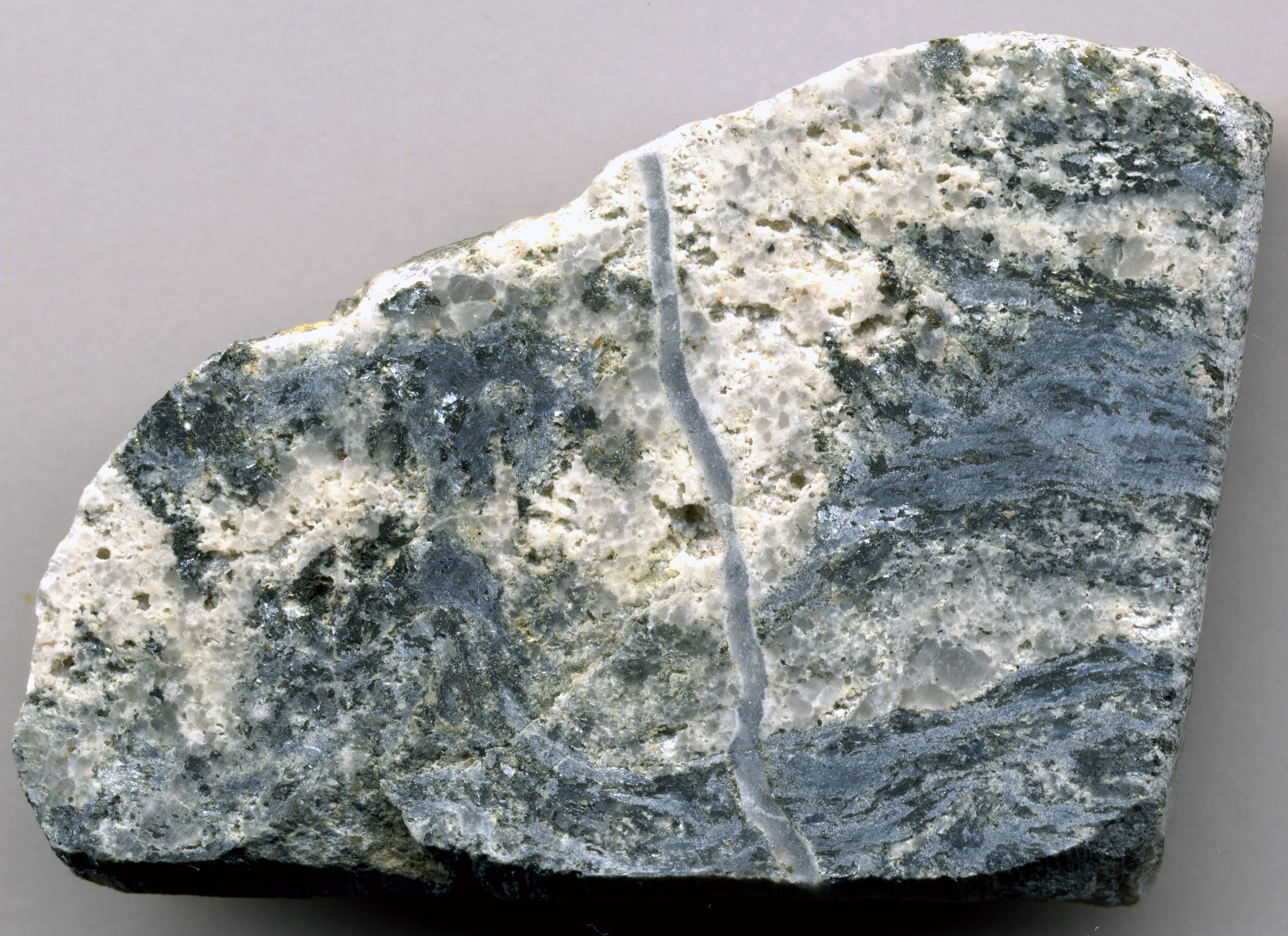 Climax Mine molybdenum ore (5.3 cm across at its base) - molybdenite-quartz veins in alkaline granite from the Climax Mine, Lake County, central Colorado, USA. Dark silvery gray = molybdenite (MoS2). Medium gray = quartz Light colored areas = alkaline granite Central Colorado’s Climax Mine is the largest molybdenum mine on Earth. It's located in the Southern Rocky Mountains, near the northern end of the Rio Grande Rift, a large, Neogene-aged rift valley on the eastern side of the Colorado Plateau. Molybdenum (Mo - “moly”) mineralization at the Climax Mine occurred as a series of igneous bodies intruded through Proterozoic basement rocks (gneisses and granites). Seven intrusive bodies make up the composite Climax Stock (Oligocene, 24-33 m.y.). Three of them produced significant moly mineralization in the form of molybdenite-quartz veins and disseminated molybdenite (MoS2 - molybdenum sulfide). The rocks of the Climax Stock are alkaline felsic intrusives. They range from porphyritic alkaline rhyolites to alkaline aplites to porphyritic alkaline granites. In map view, the igneous bodies of the Climax Stock form a roughly circular structure. In cross-section view, each intrusion has an inverted bowl shape. Published studies on the origin of the Climax Molybdenum Deposit and other Climax-type moly deposits have concluded that they form principally in incipient extensional tectonic settings well inland from shallow-angle subduction zones that have recently ceased.